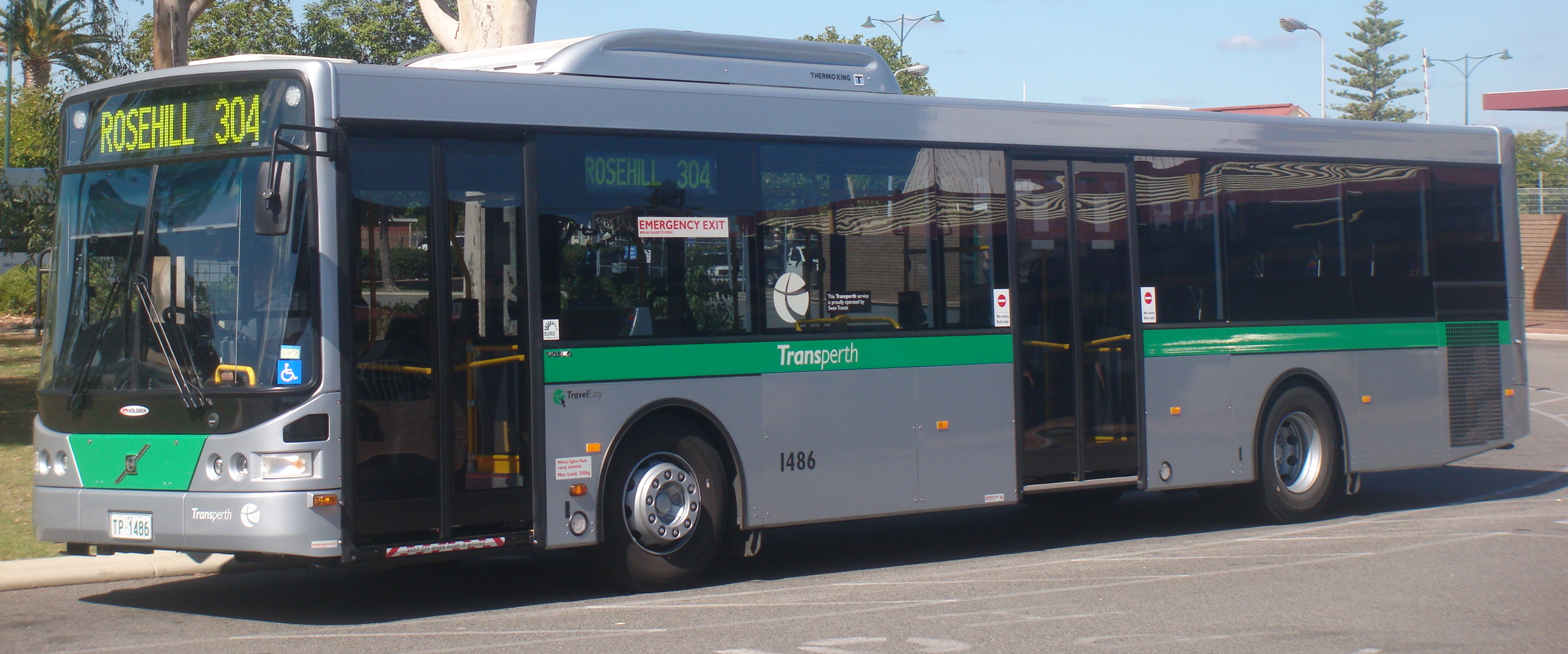 Transperth operated Volgren CR228L bodied Volvo B7RLE Mark III bus (TP 1486, built 2012) in Perth, Australia.